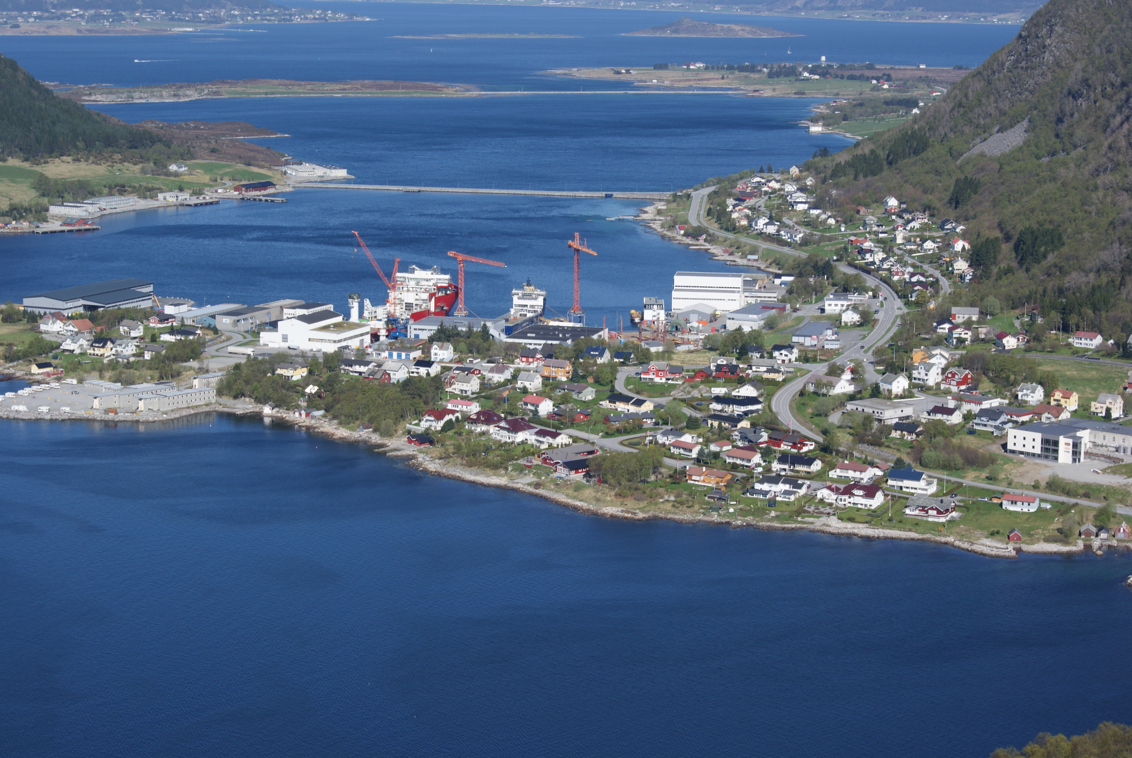 Søvik